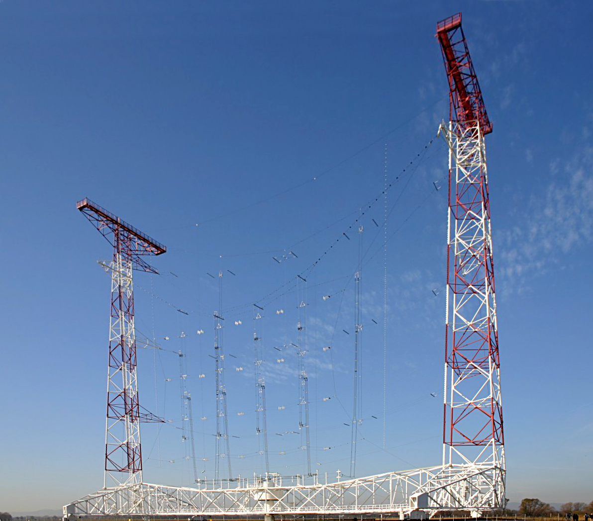 Short wave broadcasting antenna at the Moosbrunn transmitting station of the Austrian Broadcasting Service (Österreichischen Rundfunksender GmbH, ORS), Moosbrunn, Austria. This is a curtain antenna, a high gain directional wire antenna used on the high frequency (HF) bands by shortwave broadcasting stations for long distance international broadcasting. It consists of an array of wire dipoles fed in phase, in front of a vertical "curtain" reflector consisting of closely spaced parallel wires. It radiates a unidirectional beam of radio waves at a shallow angle above the horizon. The radio waves are reflected by the ionosphere back to earth beyond the horizon to cover a listening area in another country. In this example the entire antenna is mounted on a truss that rotates on a spindle, allowing the direction of the beam to be changed.